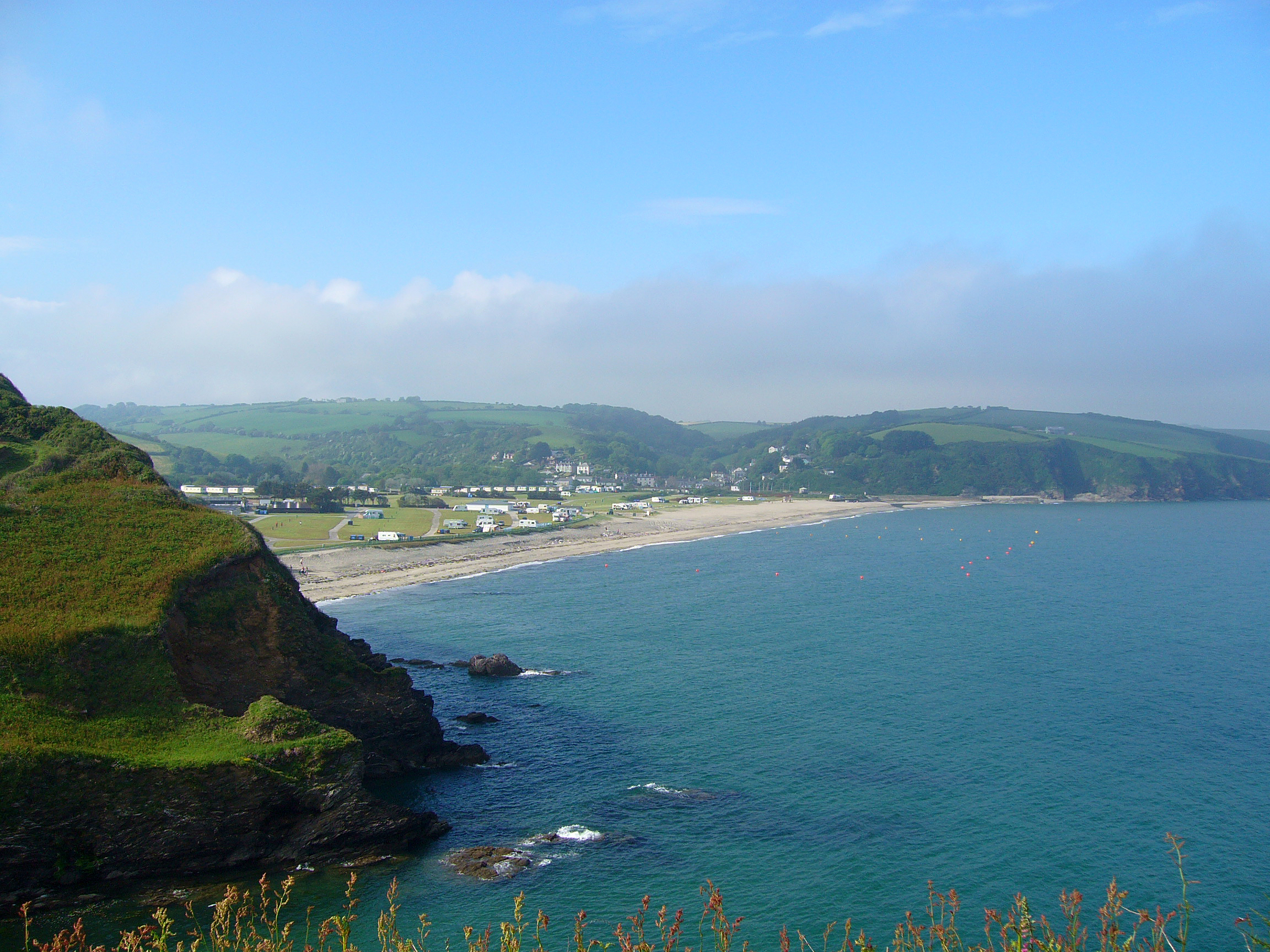 Pentewan Sands holiday park from coastal path